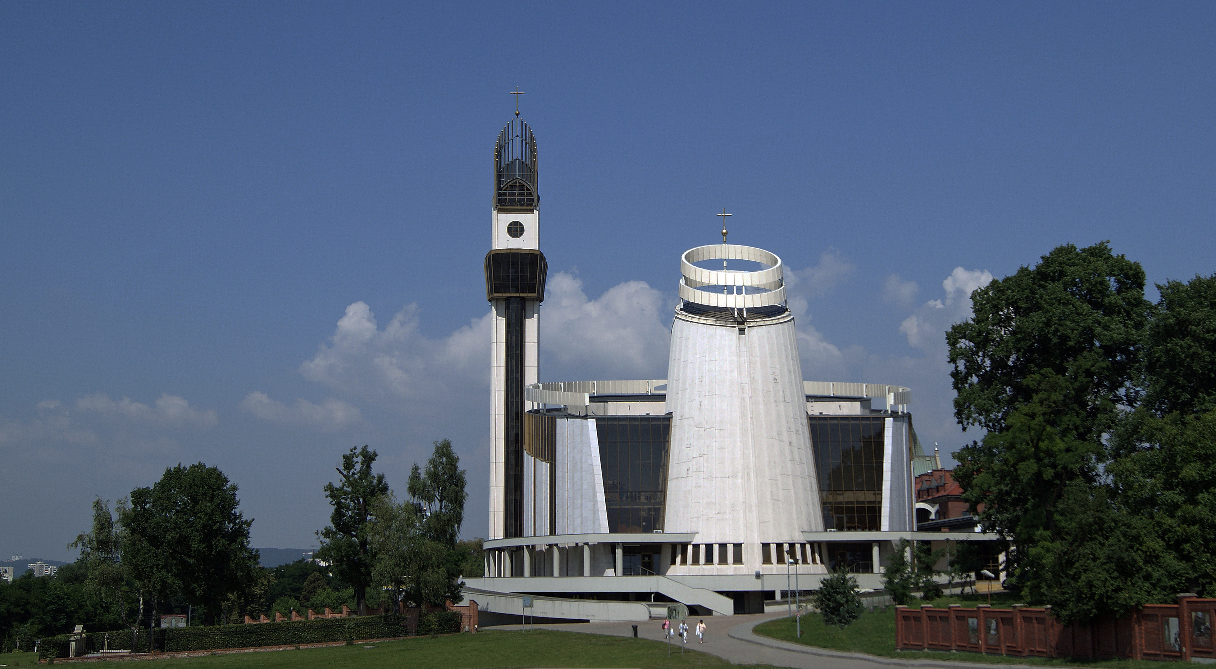 Church of the Divine Mercy, 3 Siostry Faustyny street, Lagiewniki, Krakow, Poland